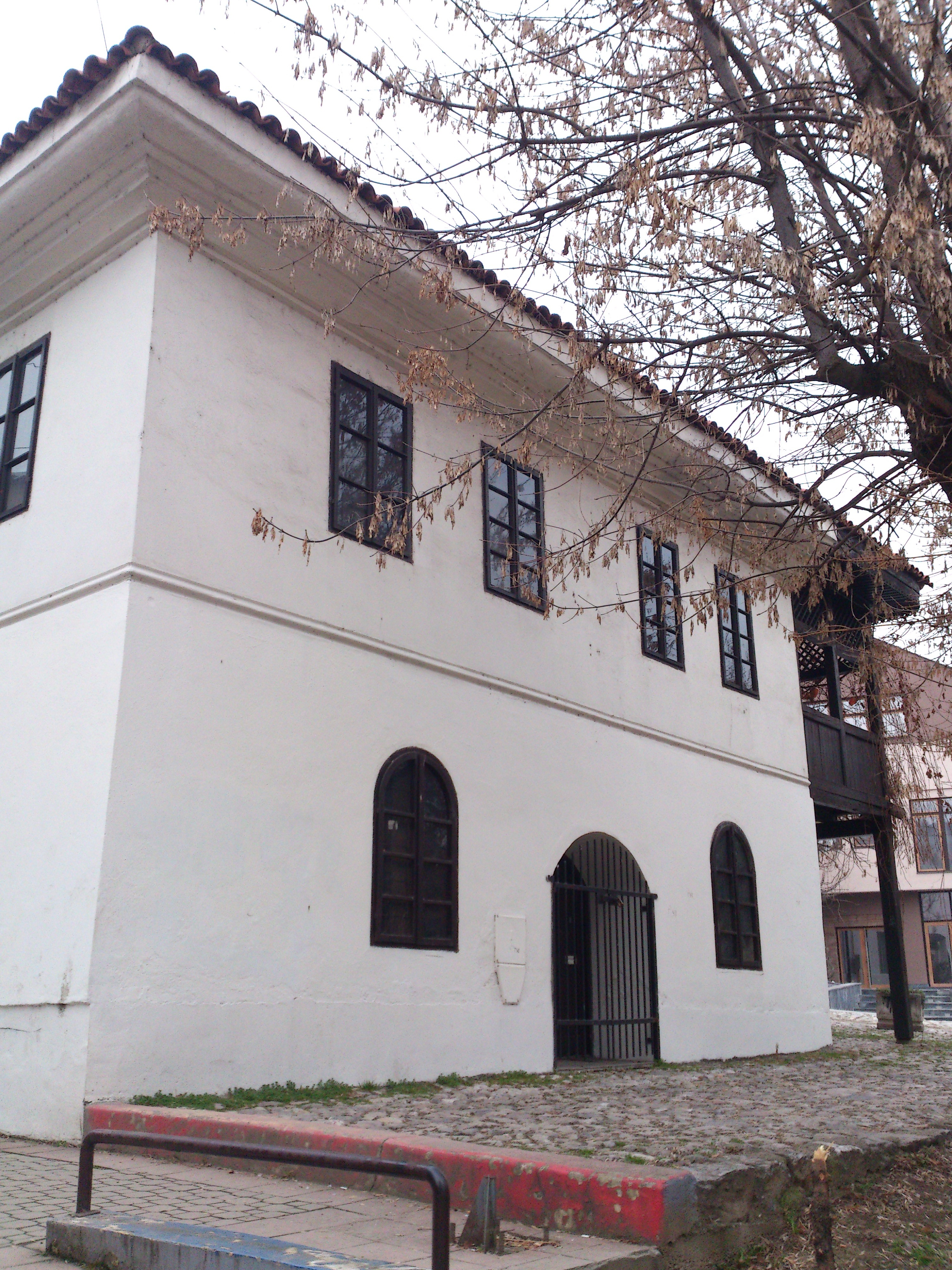 Jokanovića kuća (The house of Jokanović's), is one of the oldest buildings in Užice, a city in western Serbia. Jokanovića kuća was the property of one of the richest merchant families of Uzice in the second half of 19th century - the Jokanovic family. It is also known under the name "peccara" (The Jokanovics family traded, besides other things, with wine and brandy and owned a couple of inns in Užice).